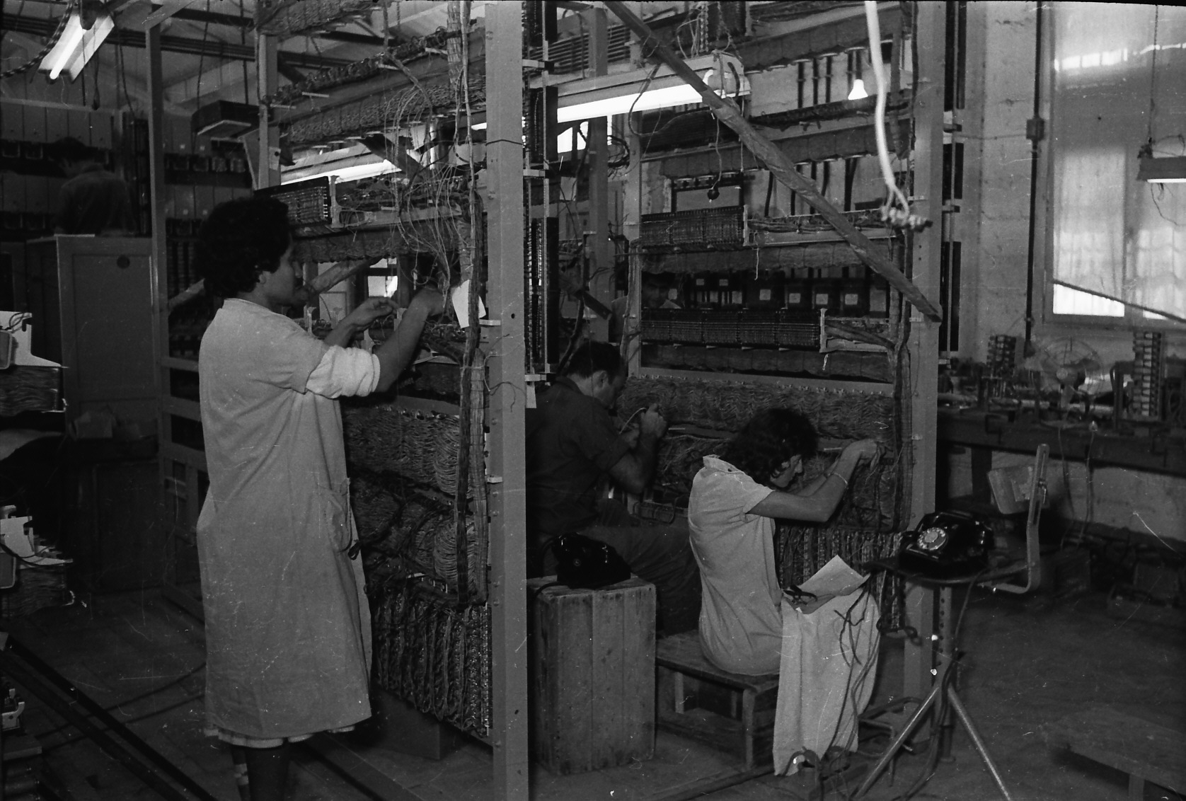 Industry in Israel